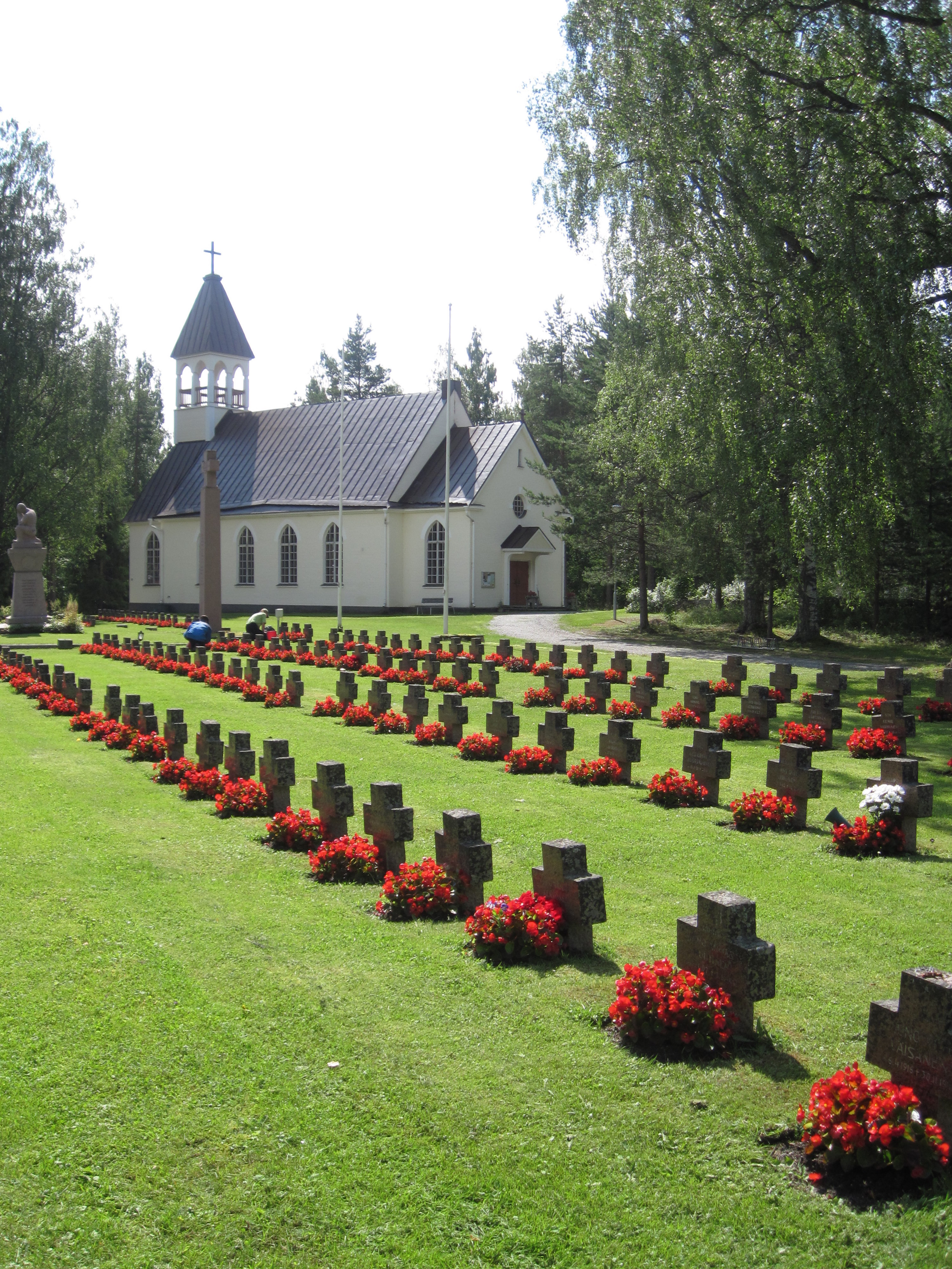 Military cemetary at church in Karttula, Finland